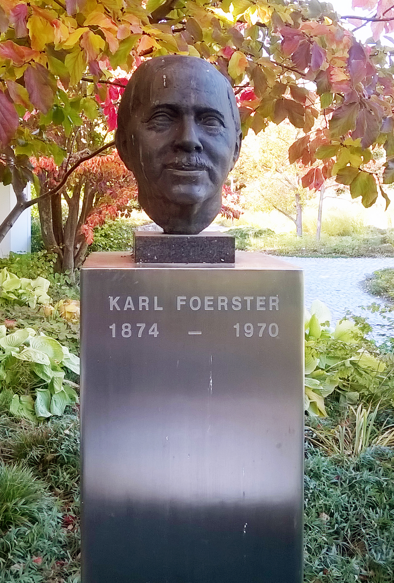 Bust, Karl Foerster by Senta Baldamus, Britzer Garten, Berlin-Britz, Germany